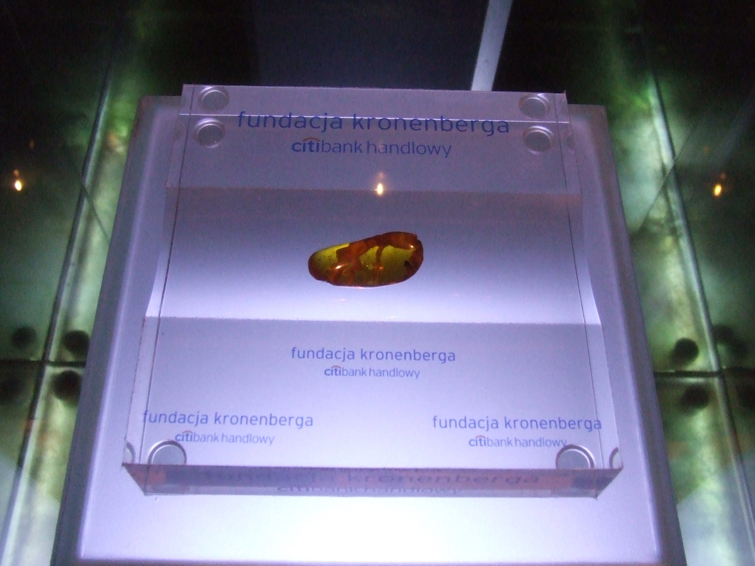 Gierłowska lizard (Succinilacerta succinea), Amber Museum in Gdańsk.